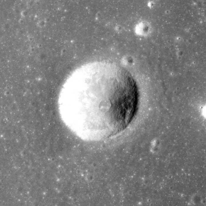 Oblique view of Borel crater, within Mare Serenitatis, facing north, on the moon. Taken by Apollo 17 panoramic camera.